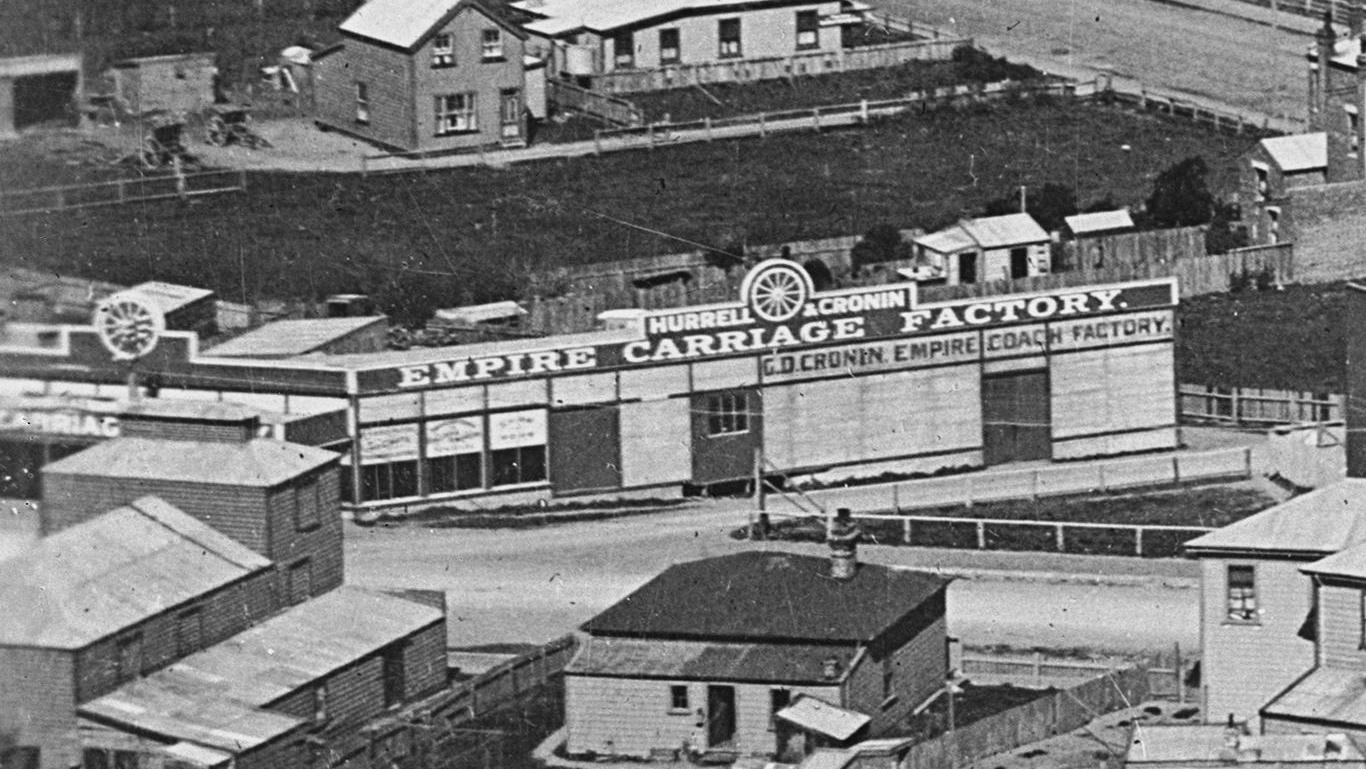 A view taken from Korokoro looking down on Petone Railway Station, Hutt Road and south-east to the Gear Meat Company and to the wharf on the waterfront. Jackson Street runs from the railway station to the left of the image. A train has stopped at the station. Identifiable commercial premises are F G Reid; Hurrell & Cronin (G D Cronin. Empire Carriage Factory); Baker Brothers (Estate agents and auctioneers). Photograph possibly taken by William A Price, in early 1900s. Inscriptions: Inscribed - Photographer's title on negative -bottom right: The Gear Works. Petone.. Quantity: 1 b&w original negative(s). Physical Description: Dry plate glass negative 4.75 x 6.5 inches Gear Meat Company, Petone. Price, William Archer, 1866-1948 :Collection of post card negatives. Ref: 1/2-001869-G. Alexander Turnbull Library, Wellington, New Zealand.